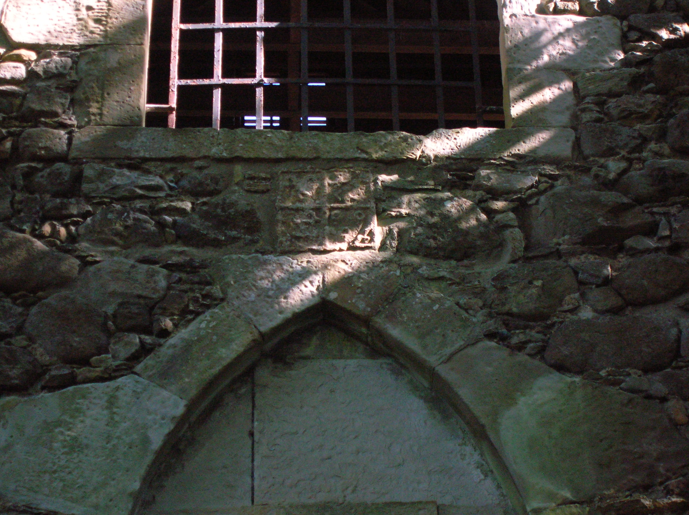 Stanecastle, south side, with armorial panel. Irvine, North Ayrshire, Scotland.